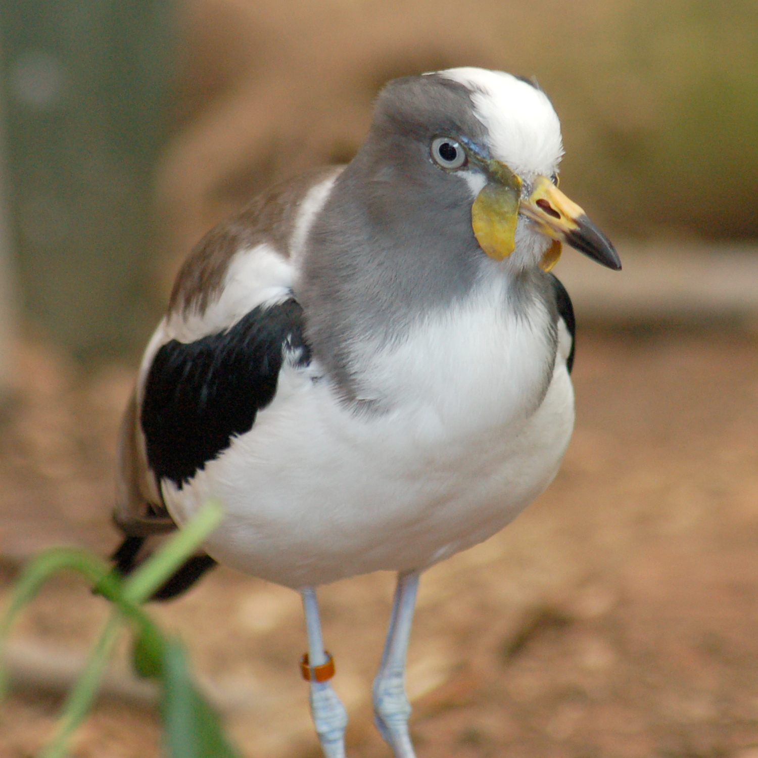 A photograph of a White-crowned Ploveren (Vanellus albiceps en ). Photo taken at the National Aviary.